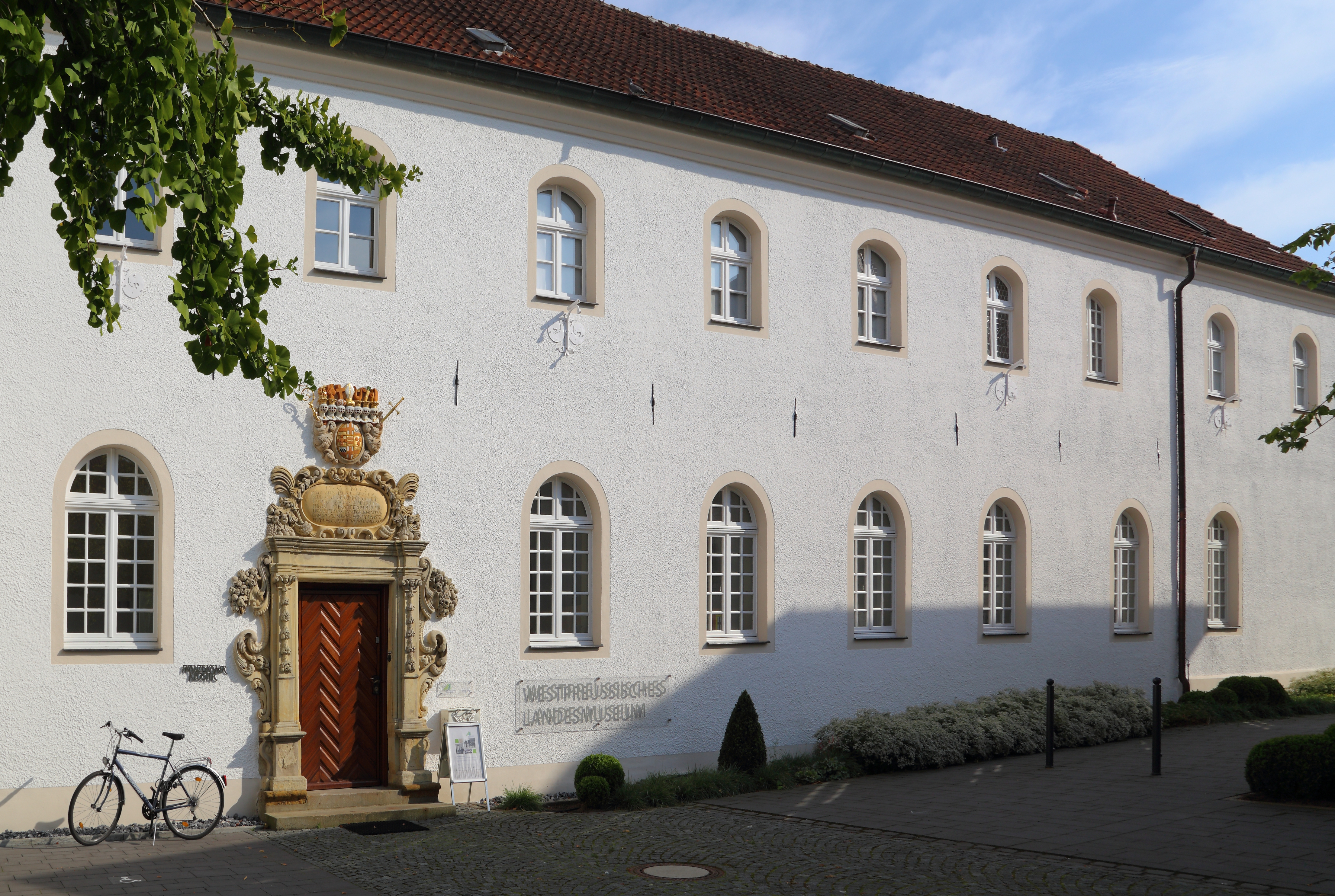 The former Franciscan Friary (Franziskanerkloster), 21 Monastery Street (Klosterstraße 21) in the city centre of Warendorf, Kreis Warendorf, North Rhine-Westphalia, Germany. Since 2014 it is the West Prussian State Museum (Westpreußisches Landesmuseum).